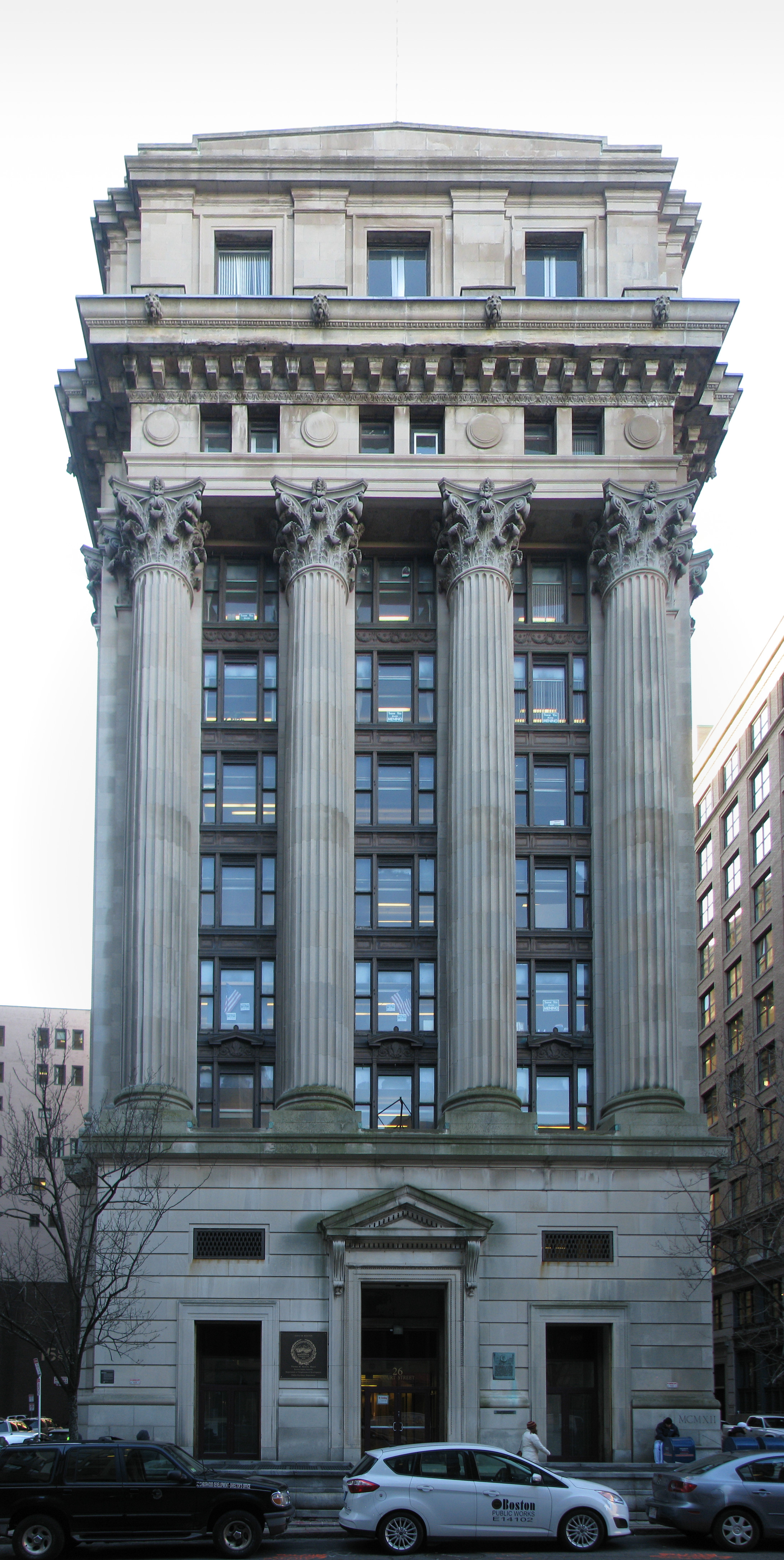 This is a stitched panorama of the Boston Public Schools headquarters building at 26 Court St, Boston, MA, USA.